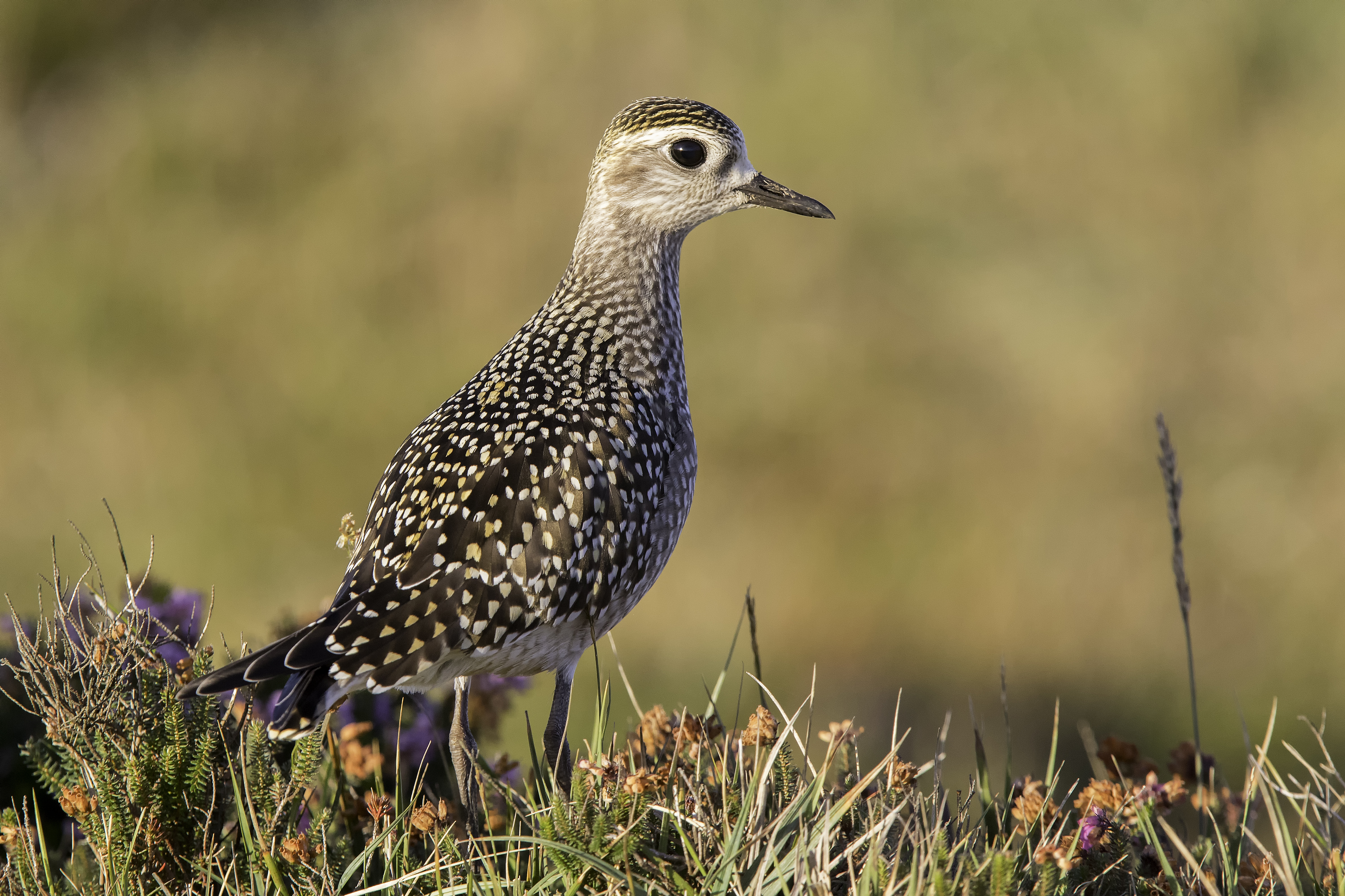 Vagrant american golden plover (Pluvialis dominica) in wintering plumage, photographed in Sierra de la Capelada (northern Spain), far outside of its distribution range, in september 2017